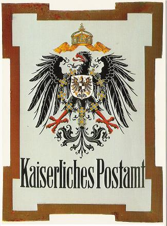 Post office insignia of old German postal service. Designed in 1900.